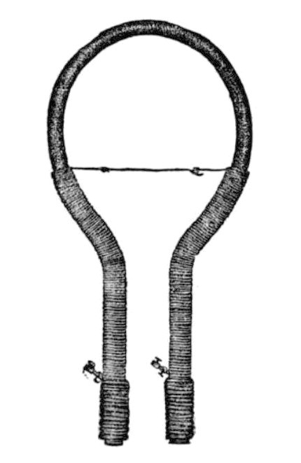 The first induction coil, built by Irish scientist and Catholic priest Nicholas Callan in 1836 at St. Patrick's College, Maynooth, Ireland. It is still preserved by the college. It consisted of a horseshoe-shaped piece of iron with two windings of wire around it, a short winding and a long winding. Callan found that when he sent pulses of electricity from a battery through the short winding, higher voltage pulses were produced by the longer winding. This was the first step-up transformer, and with it Callan discovered the principle that the voltage ratio in a transformer is equal to the turns ratio.